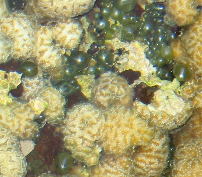 Valonia ventricosa, a green alga, Shelley Beach Saltwater pools, Ascension Island